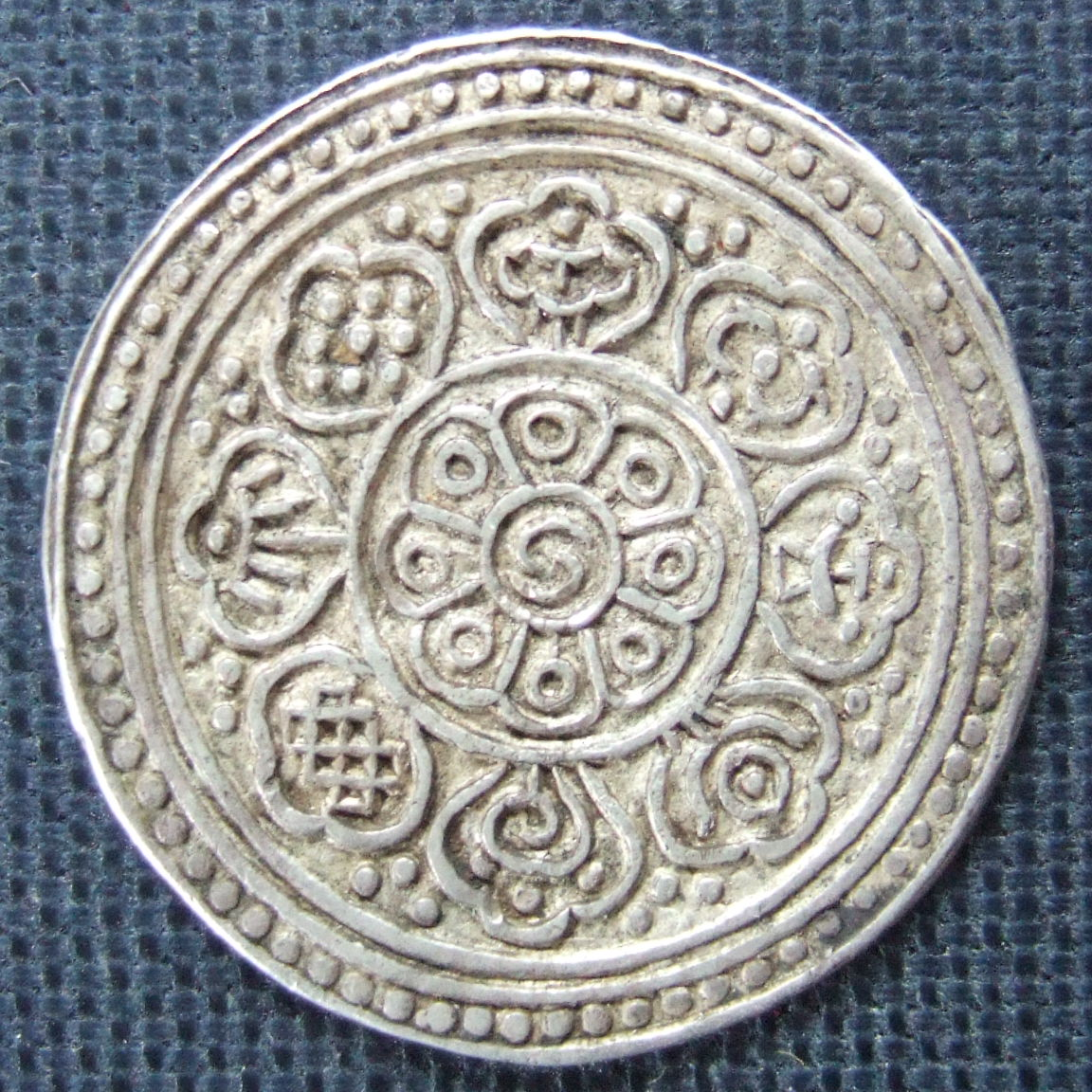 Tibetan kelsang tangka (tangka presented to monks), reverse